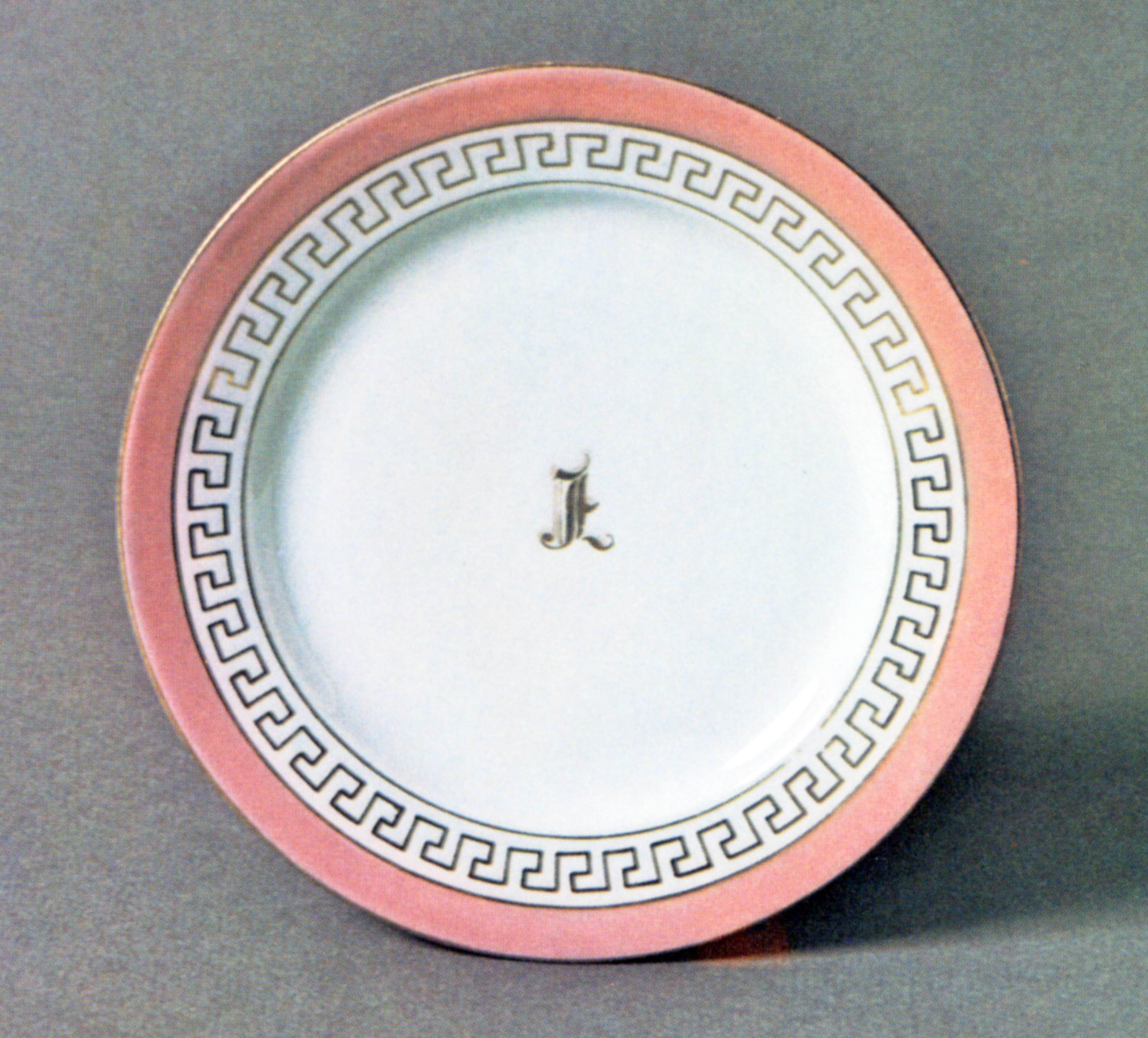 Dinner plate which was part of a porcelain china dining set by First Lady Mary Todd Lincoln in 1861. Although owned by the First Family, it was never used in the White House in Washington, D.C., in the United States. Mrs. Lincoln had ordered a very expensive, exquisitely decorated "Solfering" (purple)-bordered china service in April 1865. Heavily damaged, with many pieces stolen, it was replaced with a much less expensive, plainer china service in late 1864 which had a simple buff band around the border. In early 1865, Mrs. Lincoln ordered yet a third set of china. Records regarding this set are minimal, and it is unclear if it was purchased or was a gift from the manufacturer. The set was clearly ordered by Mrs. Lincoln before May 26, 1865, but did not arrive until after July 26, 1865 (once she had left Washington, D.C., and settled at the Hyde Park Hotel in Hyde Park, Illinois). The "pink set" was provided by China Hall, an establishment run by James K. Kerr of Philadelphia. The china has a pink border. Inside the border is a gold Greek fret motif, and a gold monogram capital letter "L" is centered in the plates and saucers. Kerr most likely decorated the piece, or at least provided the gilding and monogram. Although the manufacturer is unclear, the set was probably made in France.